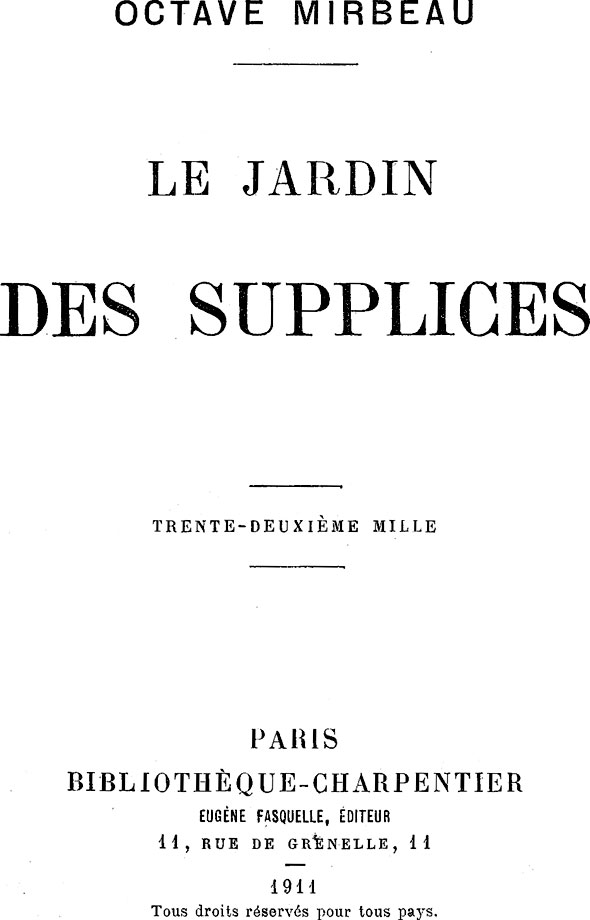 The Torture Garden (1899) by Octave Mirbeau (1848-1917)